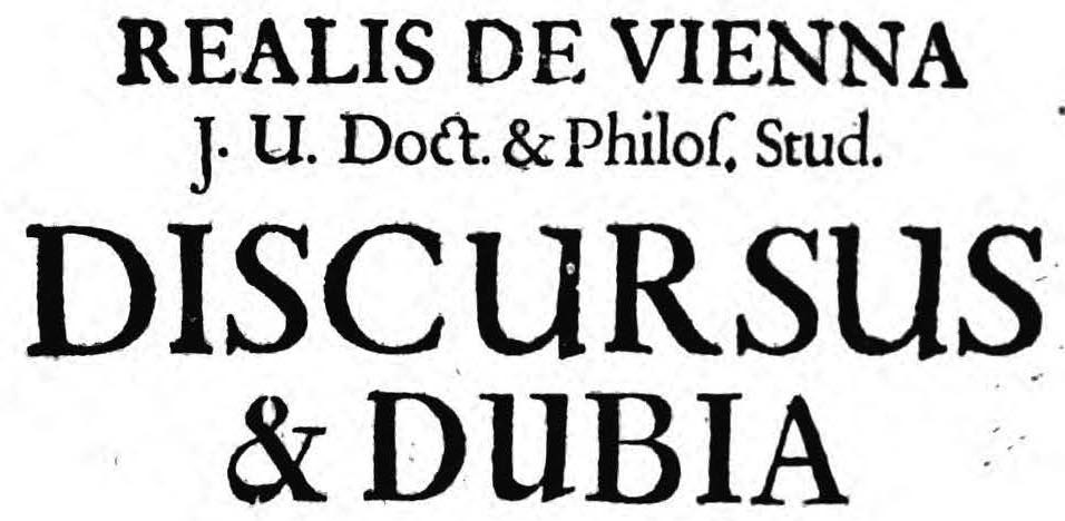 First page of Discursus et Dubia published under a nom de plume by Gabriel Wagner in 1691.